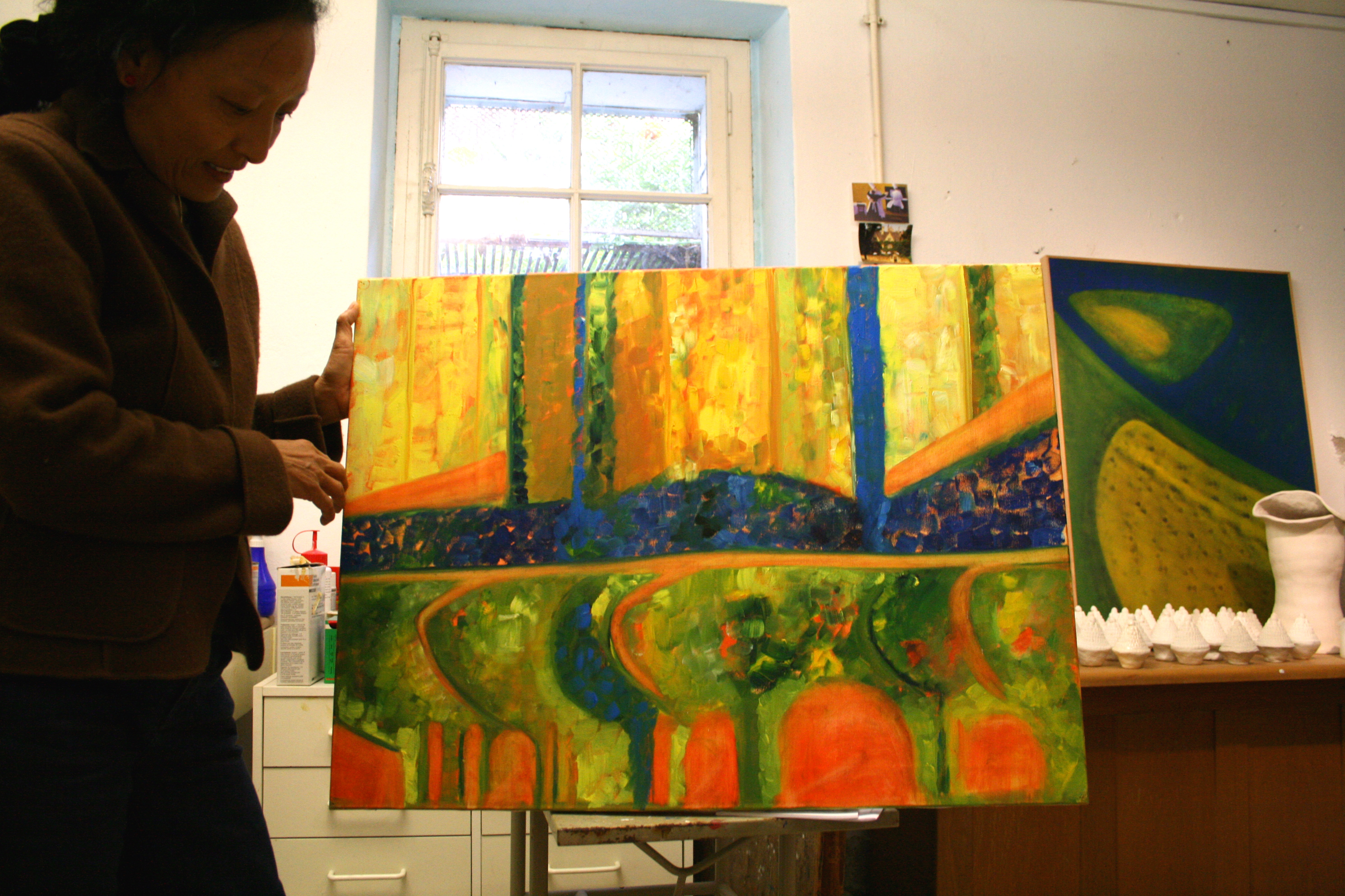 sonam dolma shows one of her artworks at her studio in bern